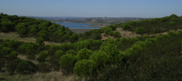 Dam of Odeleite seen near Alcaria, Algarve, Portugal